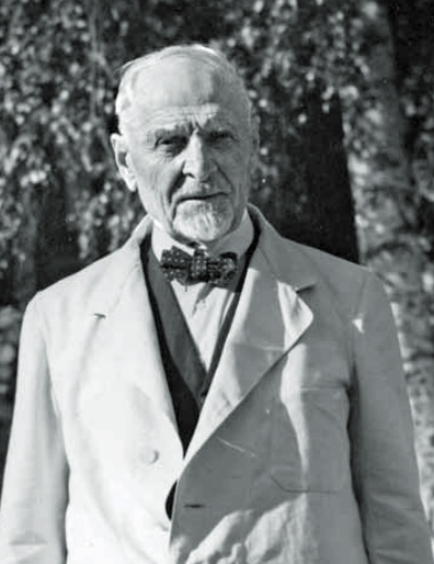 Finnish industrialist K. A. Paloheimo (1862–1949)